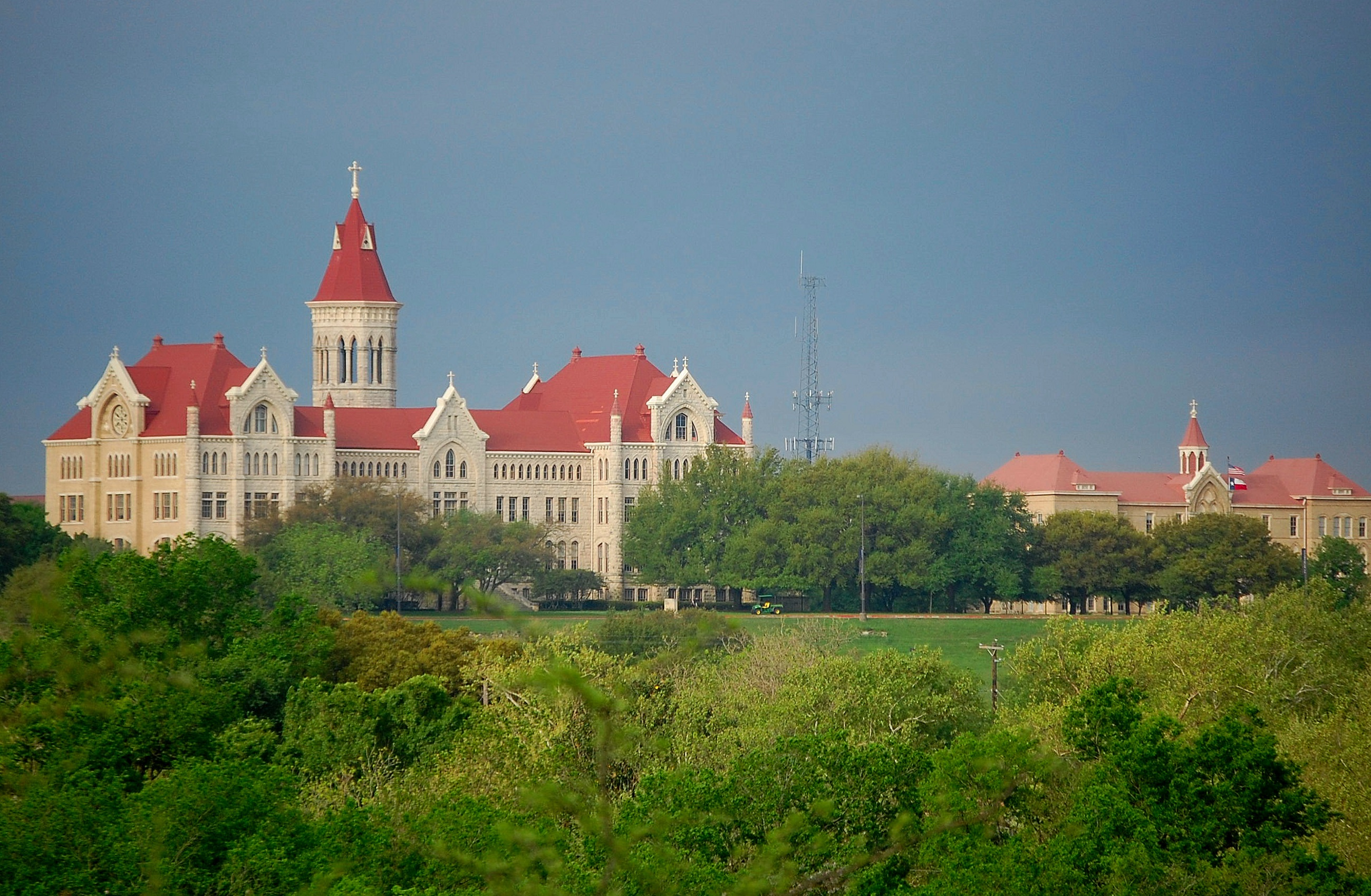 St. Edward's University